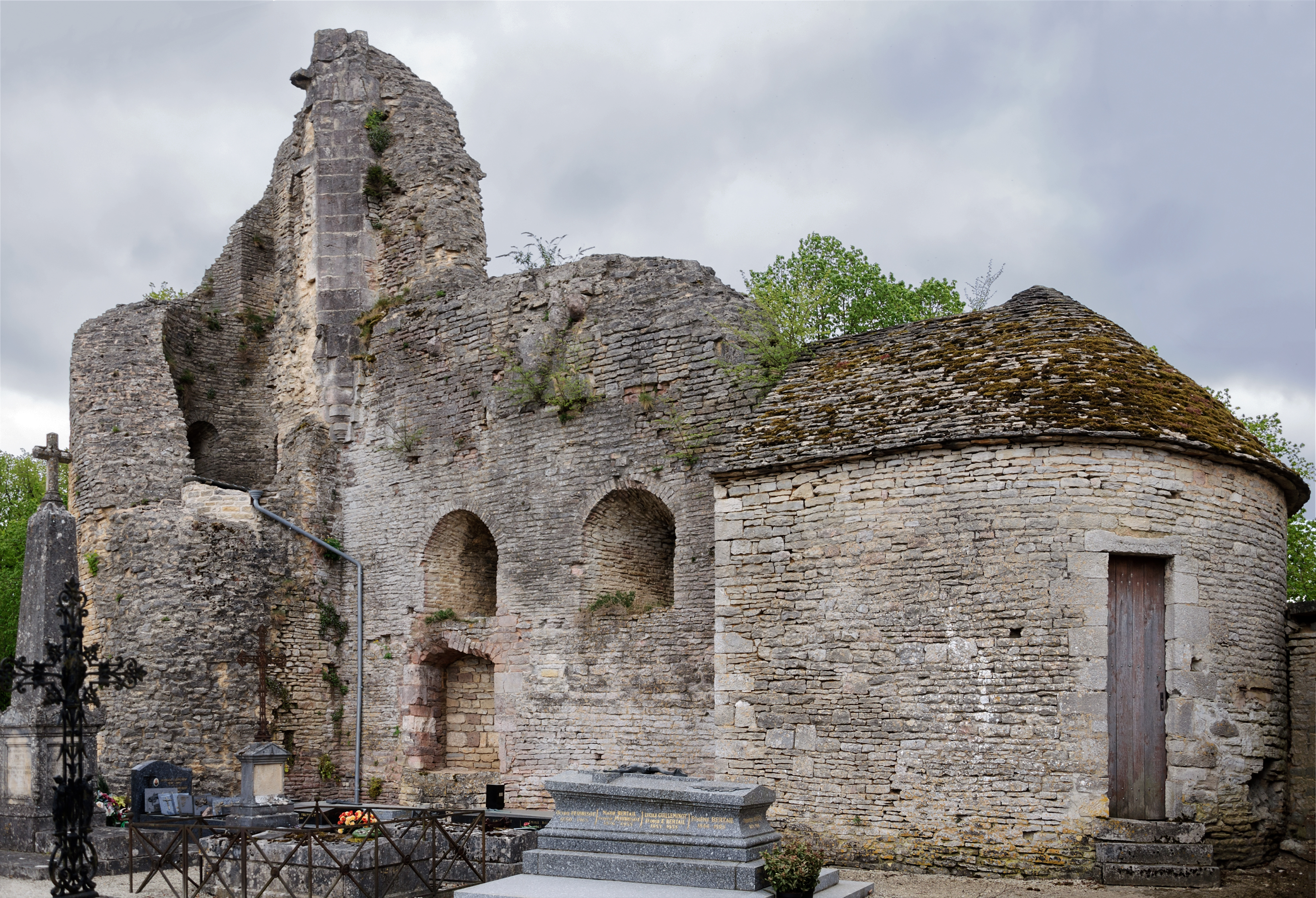 Ruins of the castle of the Dukes of Burgundy in Châtillon-sur-Seine, Côte-d'Or department, Burgundy, France. .